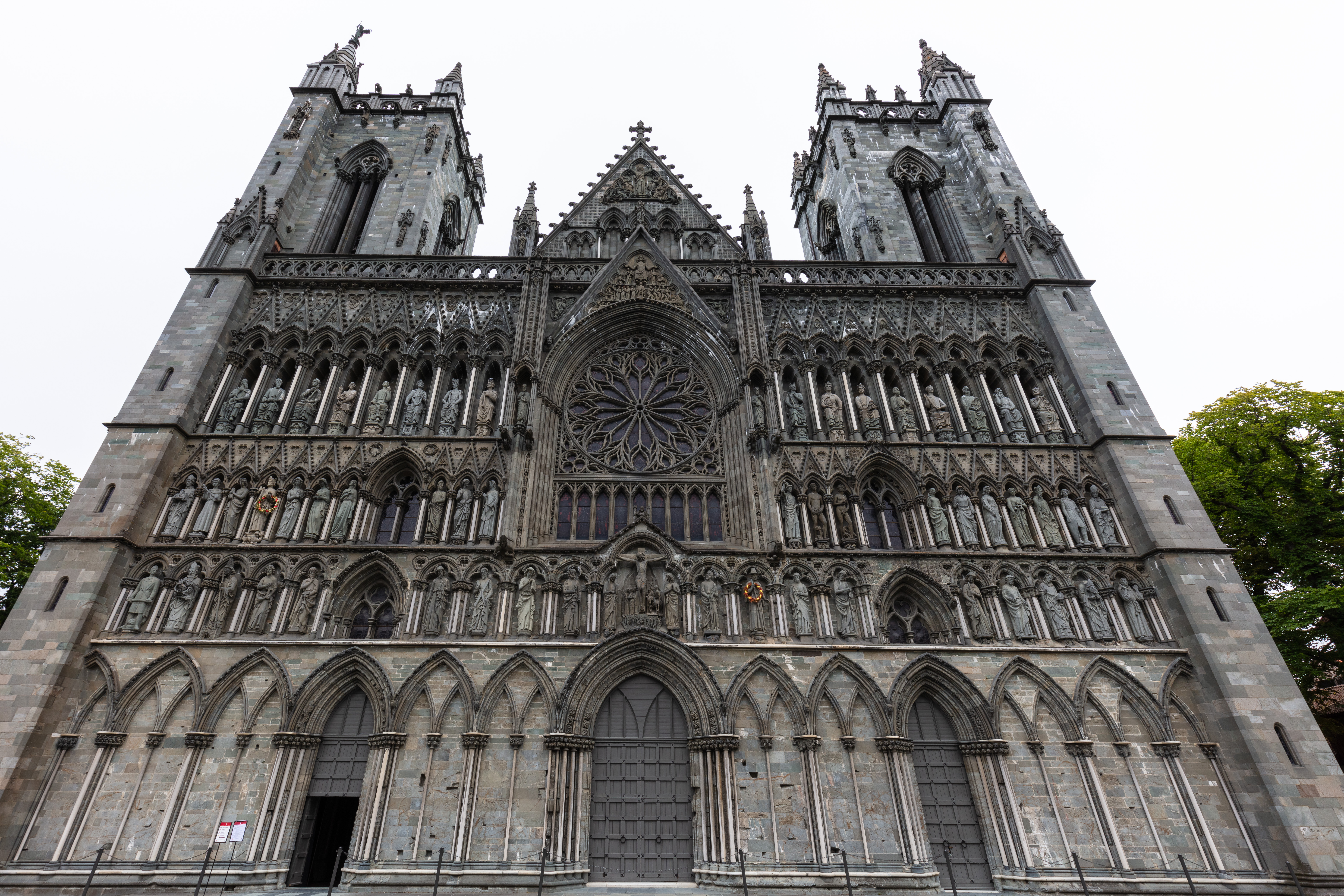 Nidaros Cathedral, Trondheim, Norway